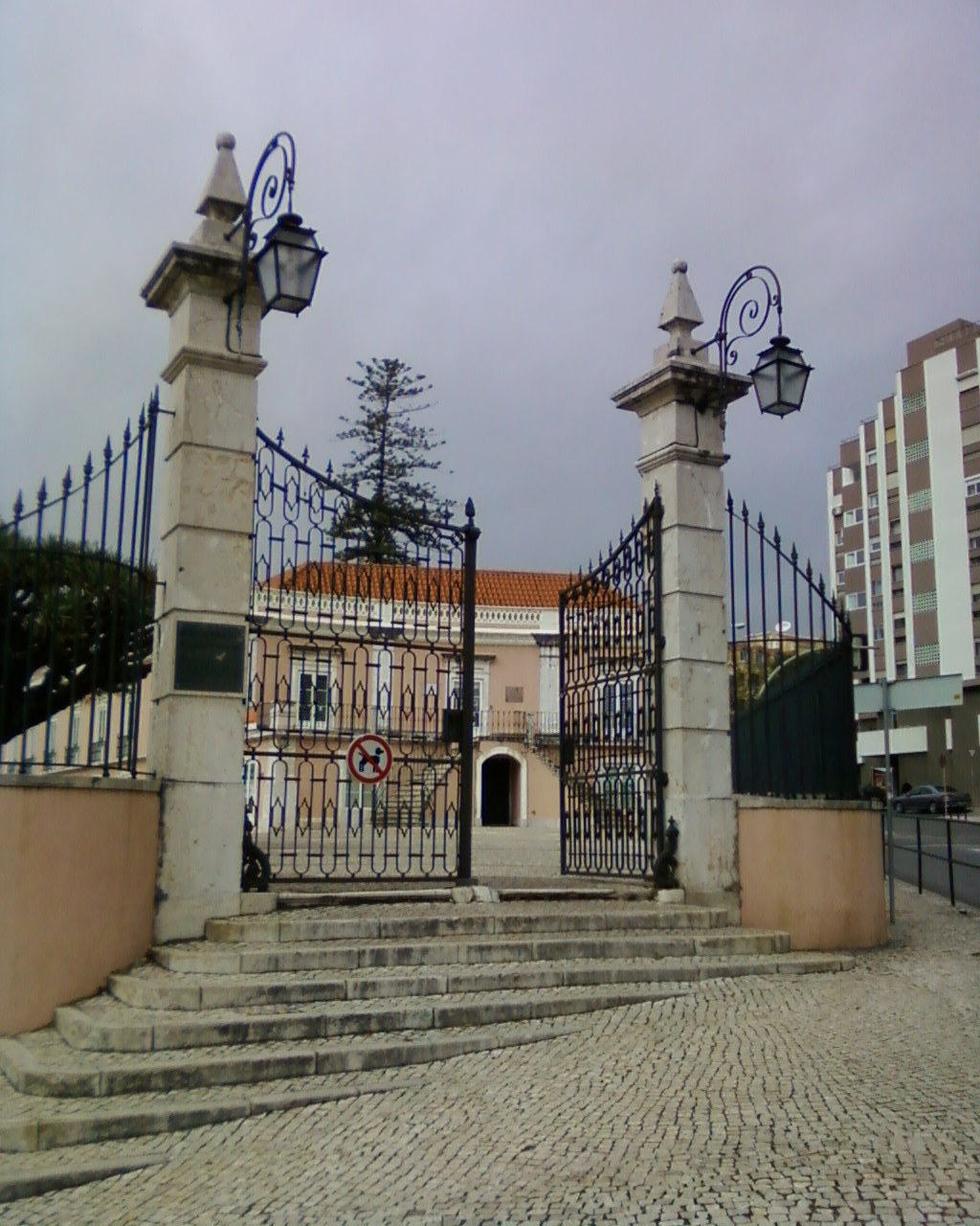 Palácio Ribamar (Algés, Portugal)